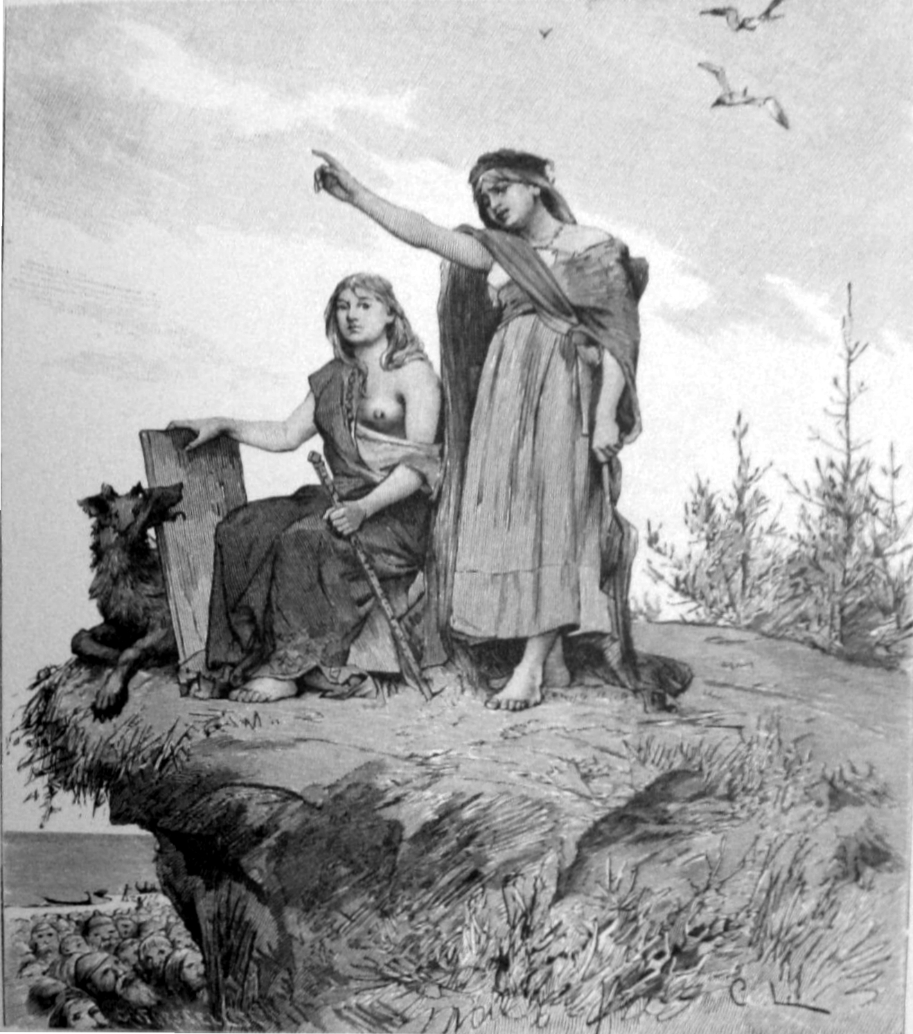 The engraving shows two women and a dog on top of what looks like a small cliff. The woman on the left is sitting. In her right hand she holds a large rectangular object, a shield or screen of some sort. In her left hand she holds what may be a sceptre. Her arms are exposed, as is one of her breasts and one of her feet. She has shoulder-length light hair. She has a somewhat neutral facial expression and appears passive. The dog is to the left of the rectangular object and appears to look on the two women. The woman on the right is standing. She points her right hand forward. Her mouth is open and her general appearance is consistent with her giving some sort of speech. Her arms and feet are bare. Below the cliff there is a multitude of people looking upwards towards the two women. There are two birds in the air and some trees in the background. The image list on page 468 in the book describes this image as "Valorna Groa och Heid", i.e. the prophetesses Groa (Gróa) and Heid (Heiðr). It precedes the poem Völuspá and is clearly meant to serve as an illustration for it.